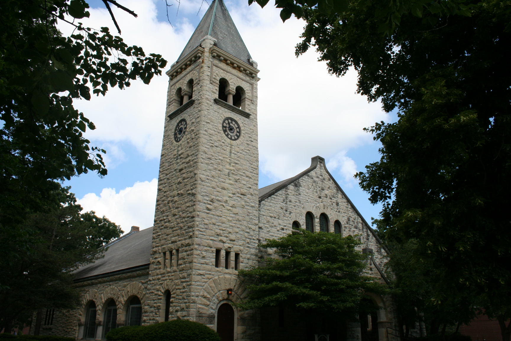 Secular Chapel of Beloit College, at Beloit, Wisconsin, United States.